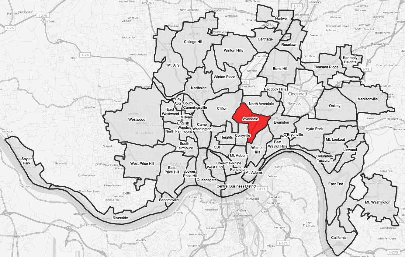 A map of the neighborhood of Avondale within Cincinnati, Ohio. Neighborhood lines are based on information from This street map is derived from a free map.